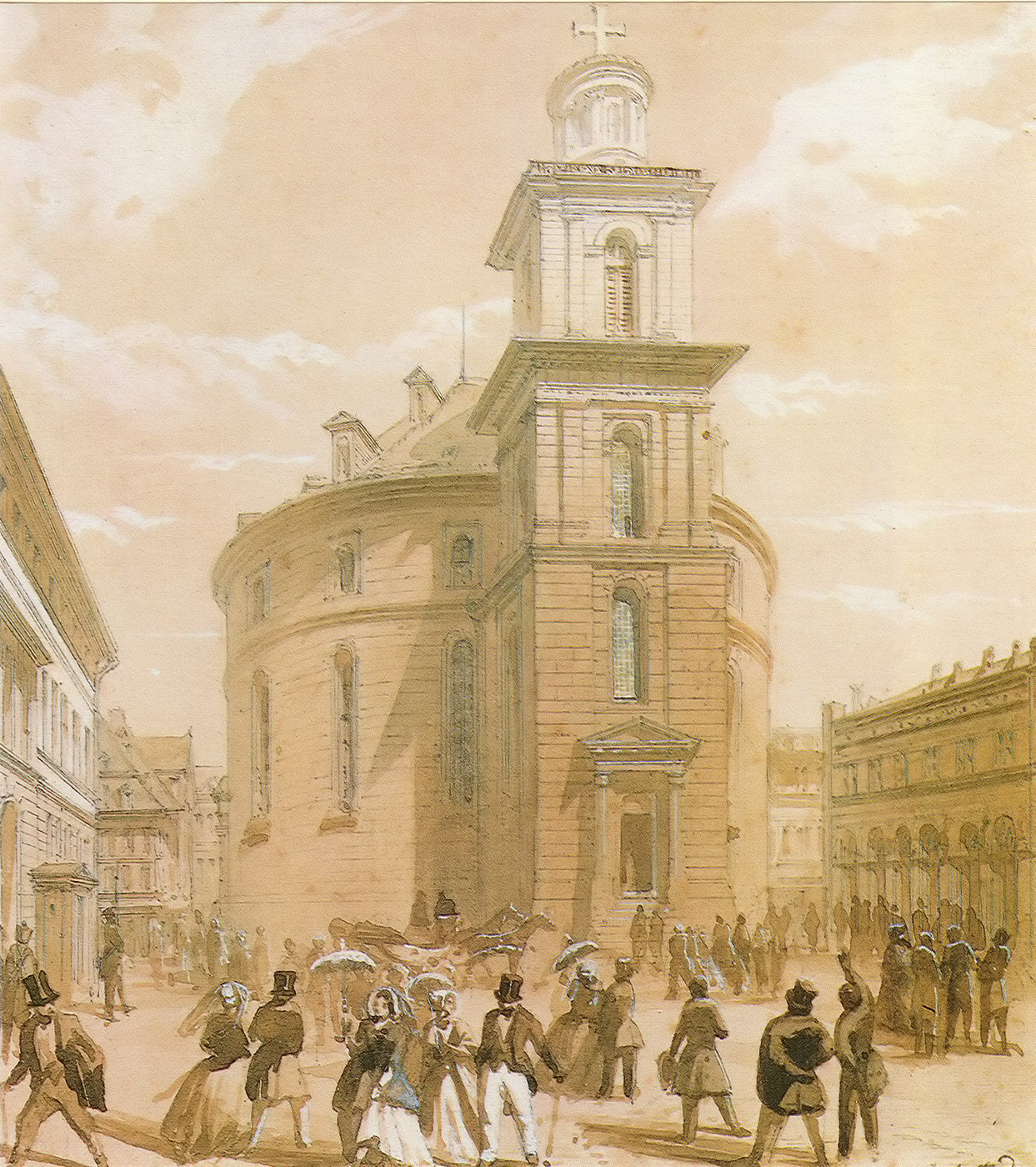 Paulskirche in Frankfurt am Main in 1848, the year the Vorparlament and the Frankfurt Parliament met there; watercolour painting by Jean Nicolas Ventadour; Historic Museum Frankfurt a.M.